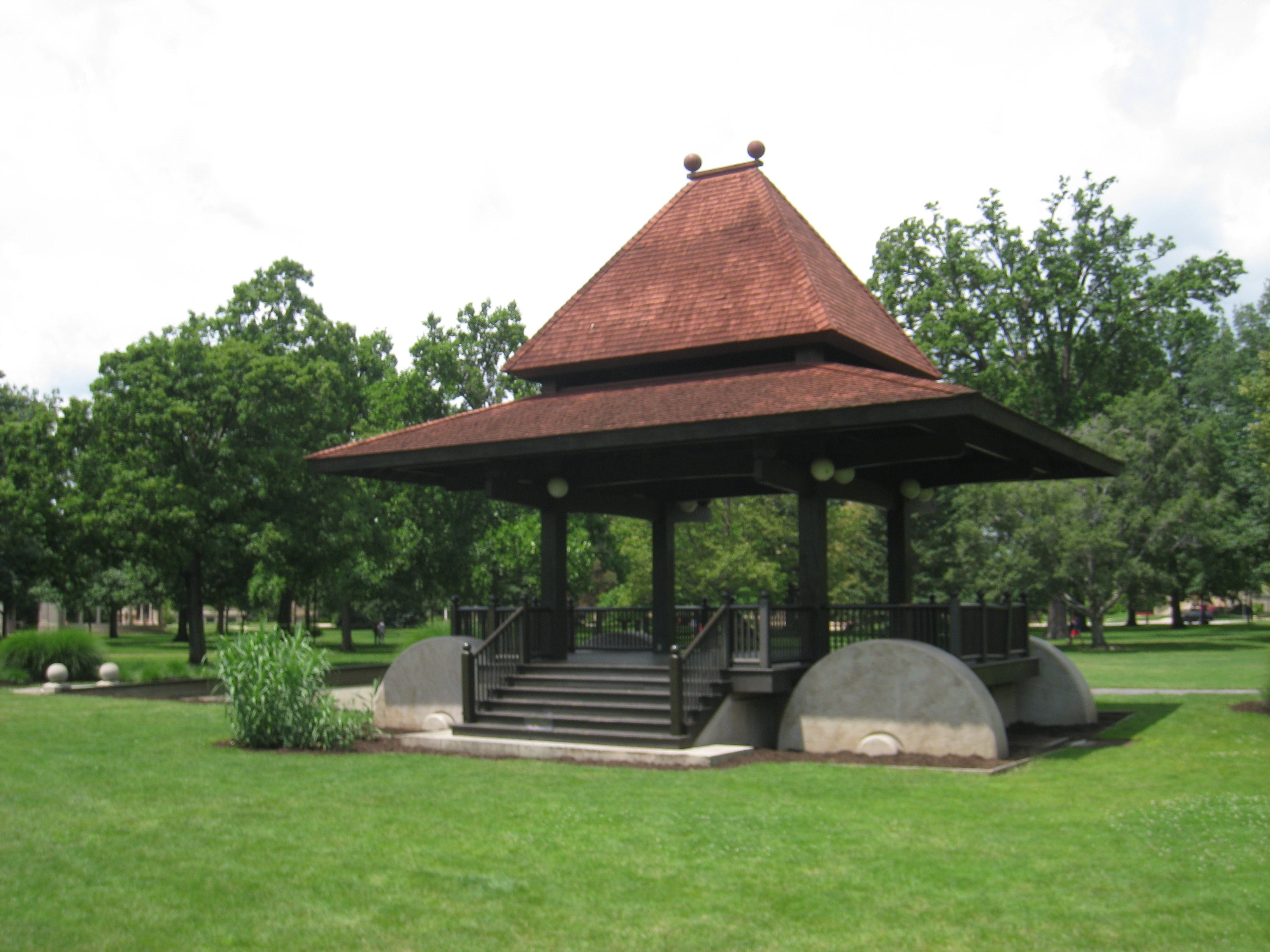 Bandstand in Tappan Square, Oberlin, Ohio, USA. I took this photograph.